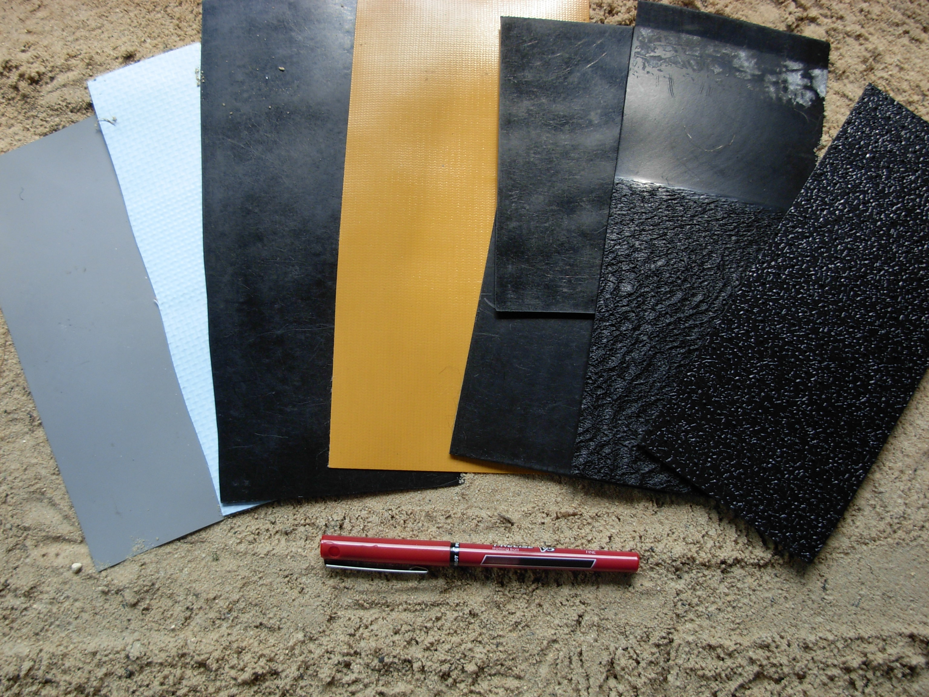 Geomembranes